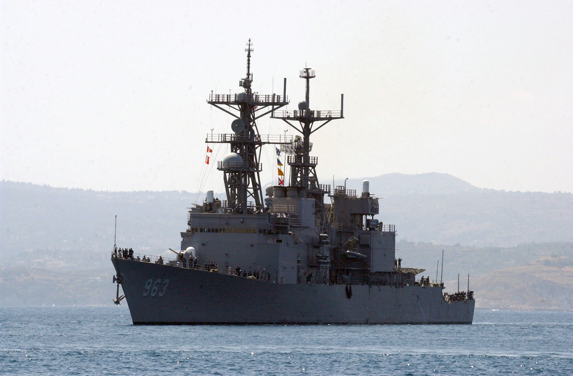 Souda Bay, Crete, Greece (July 19, 2004) – The destroyer USS Spruance (DD 963) is escorted by tugs as she arrives for a port visit at Souda Bay, Crete, Greece. Spruance is homported in Mayport, Fla., and is currently on a routine deployment. Spruance-class destroyers, the first large U.S. Navy warships to employ gas turbine engines as their main propulsion system, are undergoing extensive modernizing. The upgrade program includes addition of vertical launchers for advanced missiles on 24 ships of this class, in addition to an advanced Anti-Submarine Warfare (ASW) system and upgrading of its helicopter capability. Spruance-class destroyers are expected to remain a major part of the Navy's surface combatant force into the 21st century. U.S. Navy photo by Paul Farley (RELEASED)